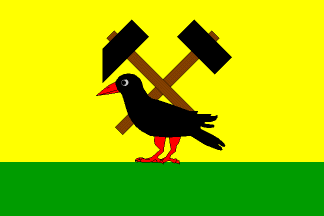 Flag of town Horní_Město, Bruntál district, region Moravian-Silesian Česky: Vlajka obce Horní Město